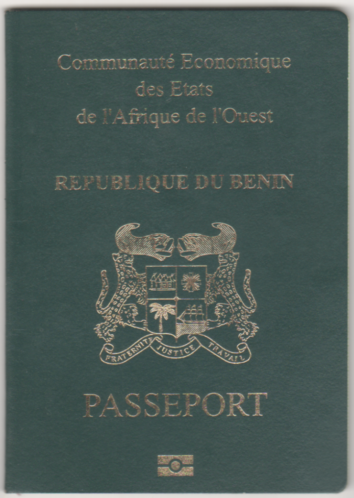 BENIN biometric passport